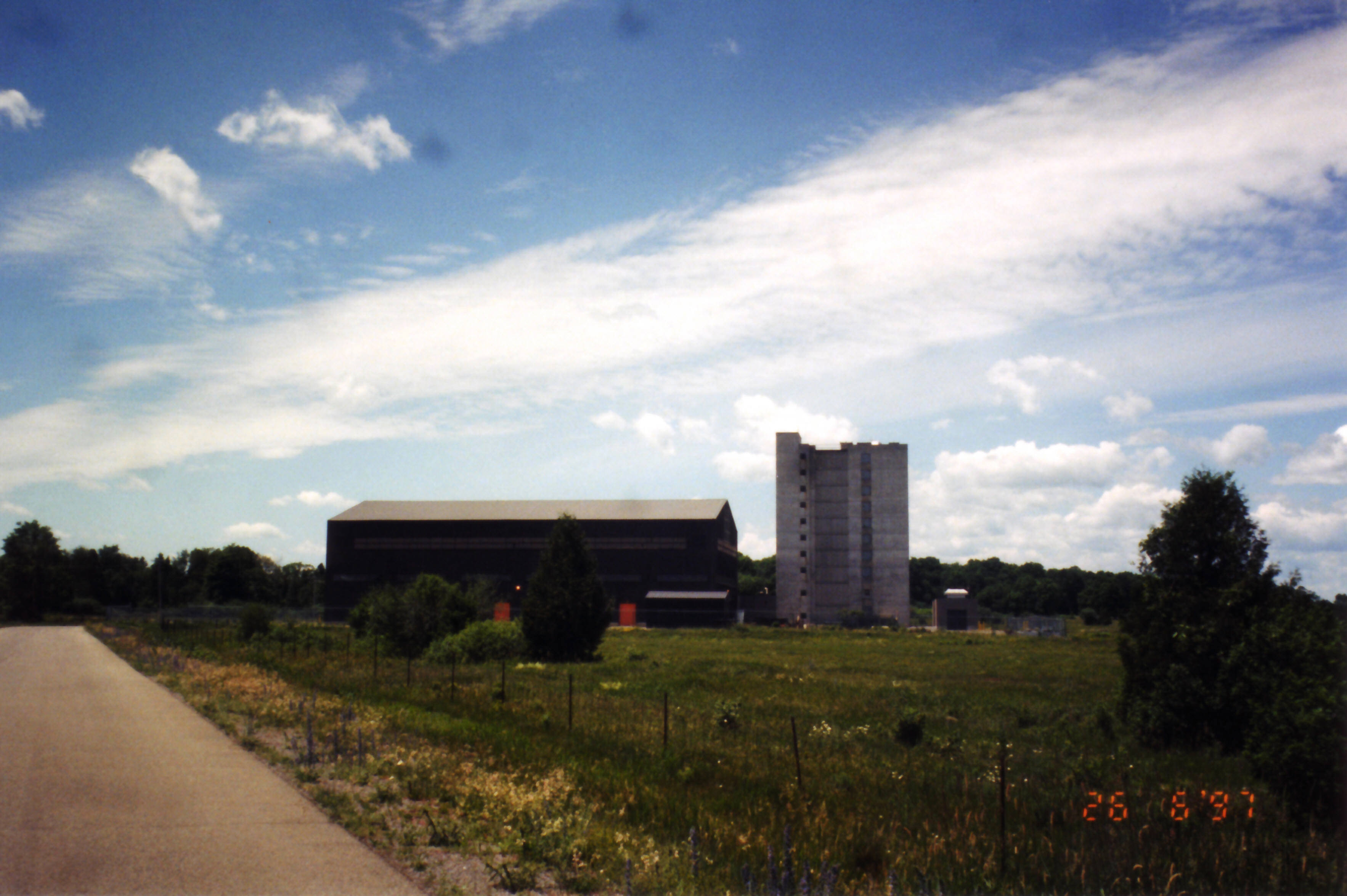 Fire house at Institute for Research in Construction, part of National Research Council of Canada. This facility is used for governmental testing that aids the development of National building and fire codes in Canada.